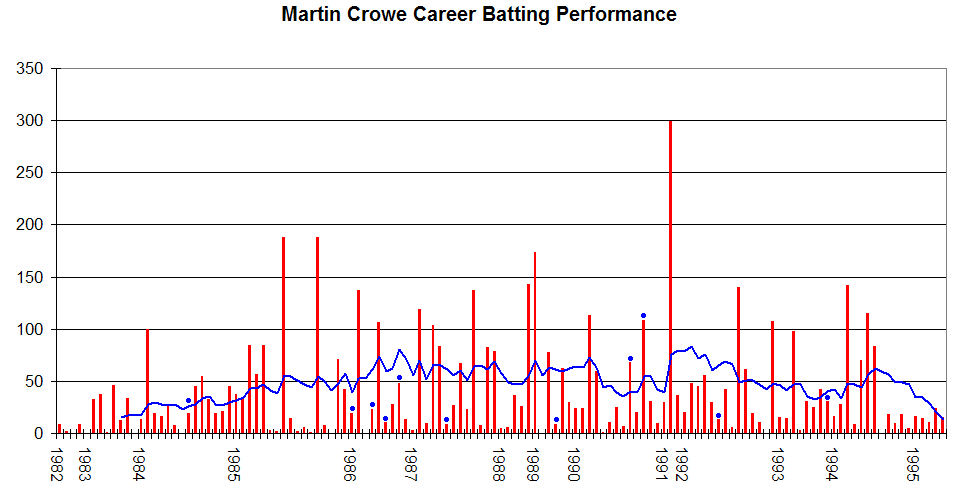 This graph details the Test Match performance of Martin Crowe. It was created by Raven4x4x. The red bars indicate the player's test match innings, while the blue line shows the average of the ten most recent innings at that point. Note that this average cannot be calculated for the first nine innings. The blue dots indicate innings in which Crowe finished not-out. This graph was generated with Microsoft Excel 2002, using data from Cricinfo and .au.